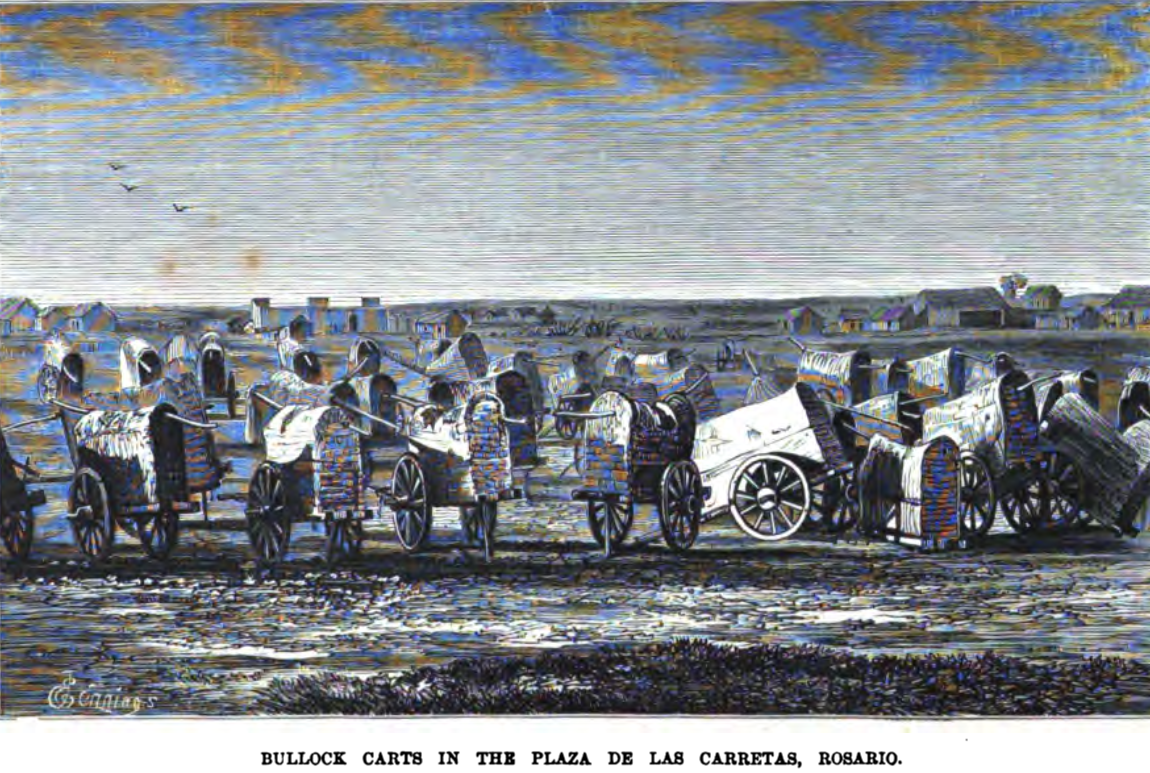 Bullock carts in the plaza de las Carretas, Rosario, Argentina